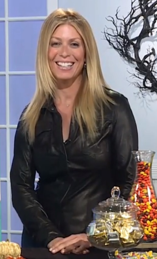 Emmy-award winning TV personality and New York Times best-selling author Jill Martin